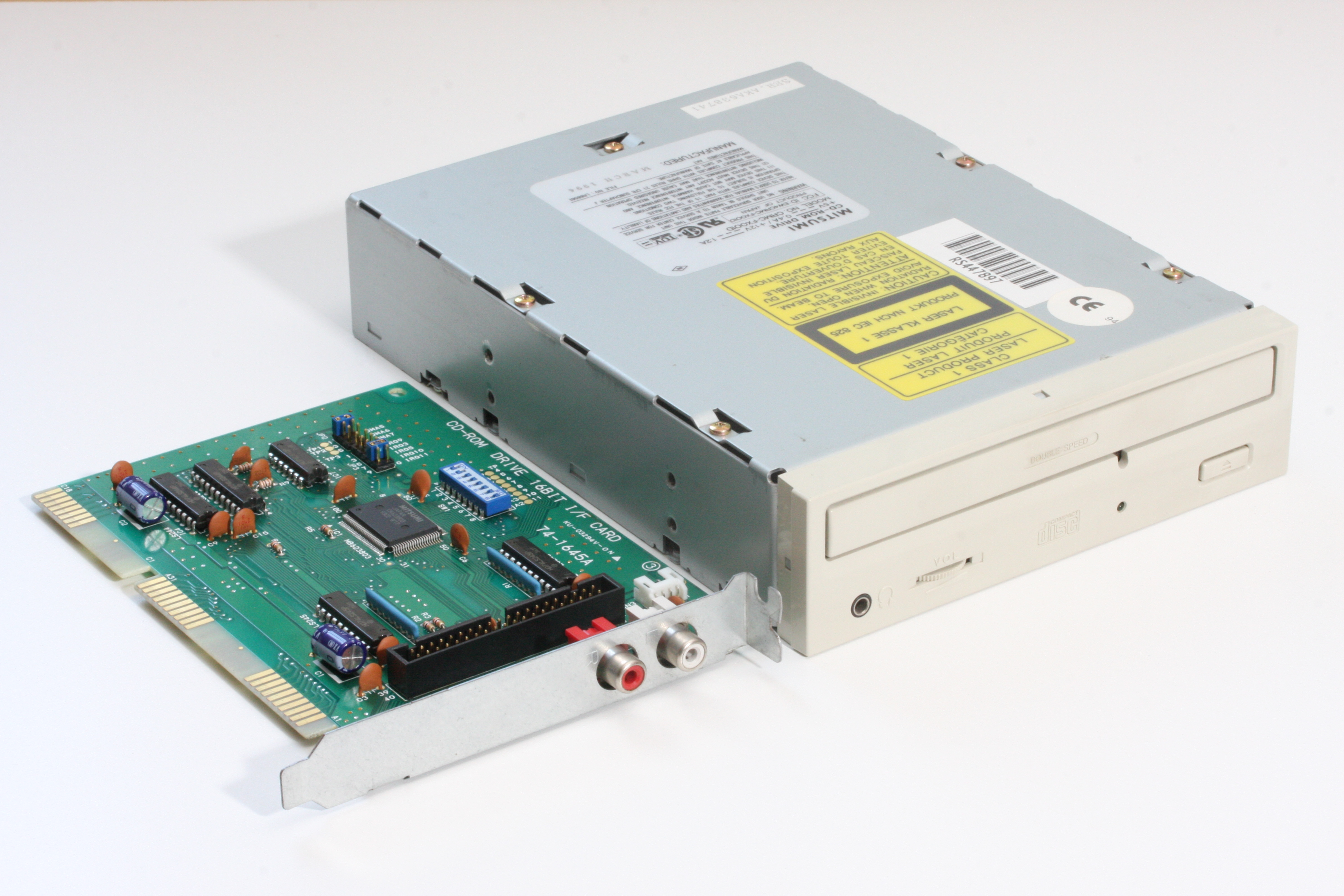 Mitsumi DoubleSpeed CD-ROM drive CRMC-FX001D with ISA 16bit ide and audio card